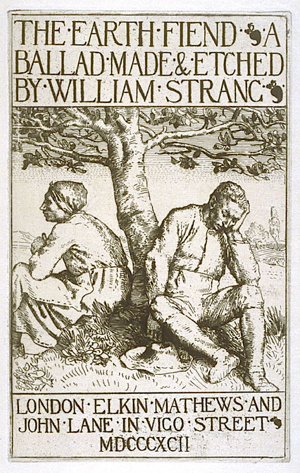 Book cover of The Earth Fiend, a ballad made and etched by William Strang, published in London [Vigo Street] by Elkin Mathews & John Lane. Dim. : 39,7 x 29 cm.